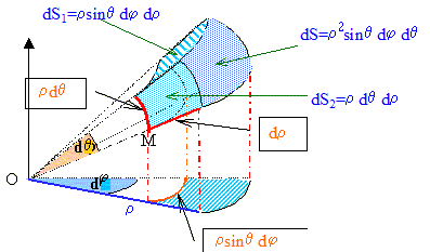 Volume of a sphere